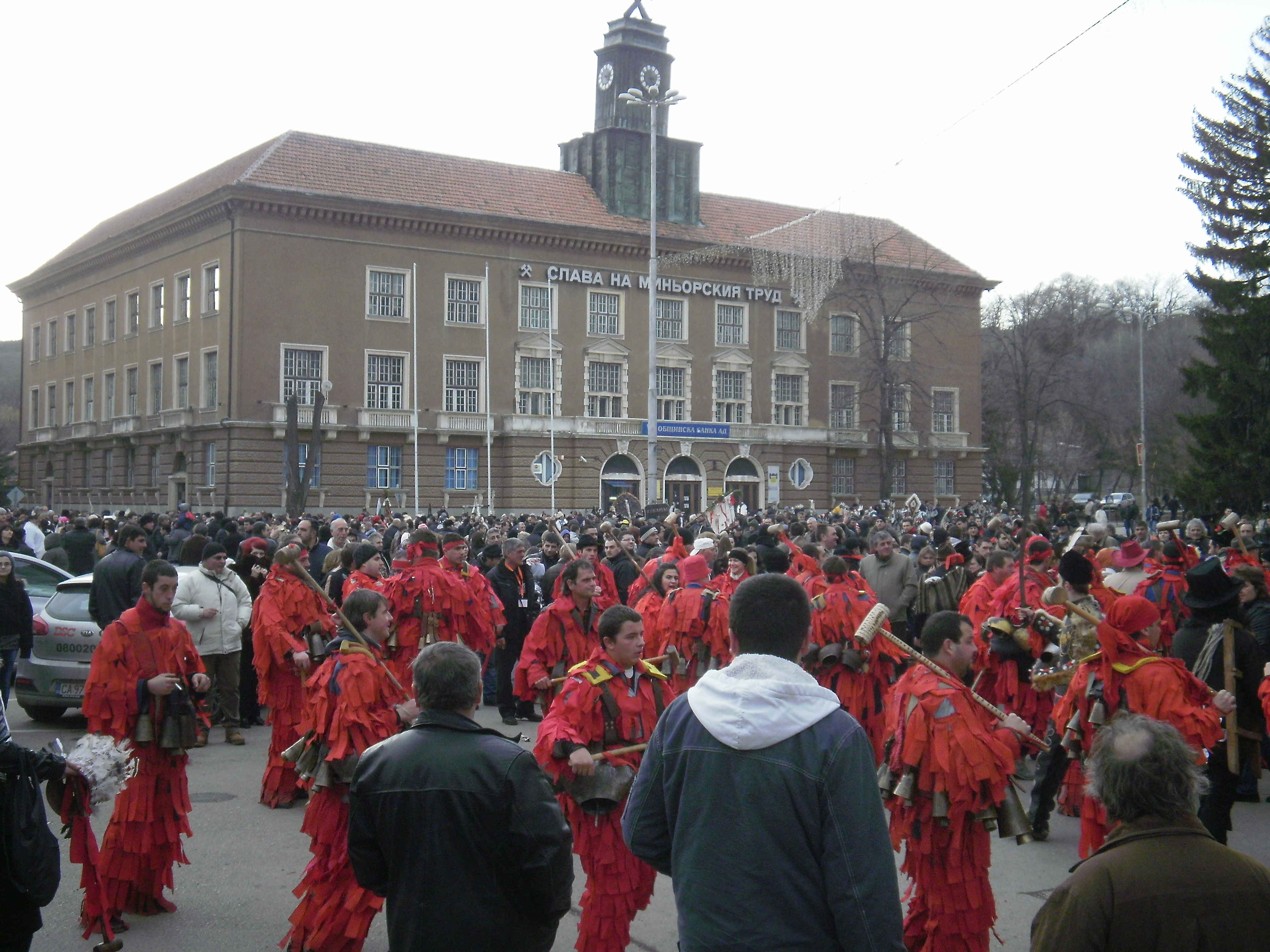 XXII International festival of masquerade games "Surva", Pernik, Bulgaria, 2013.